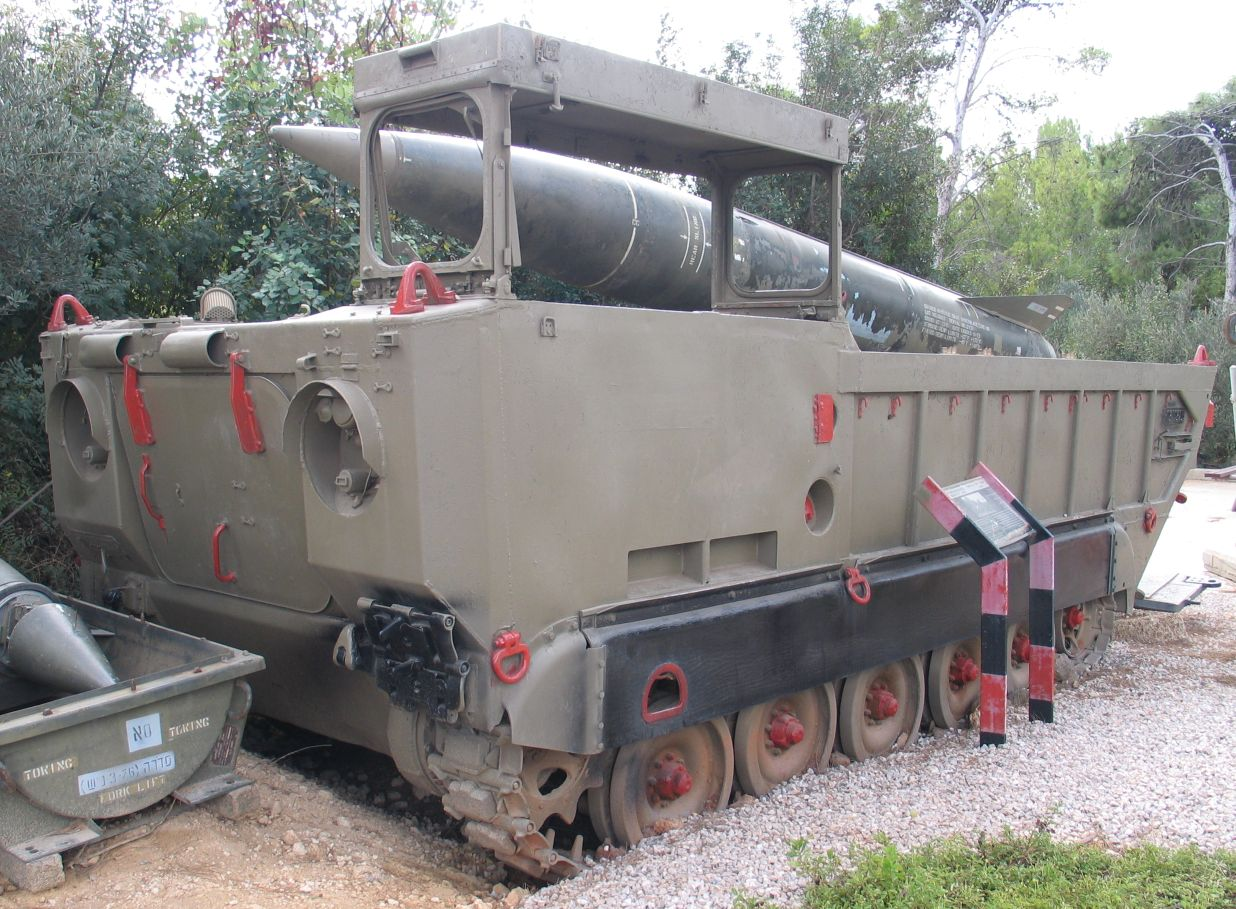 Description: M752 Lance Missile Launcher (based on M667 Lance Missile Carrier on M113 APC chassis) in Beyt ha-Totchan, Zichron Yaakov, Israel. Source: Photo by me, User:Bukvoed.